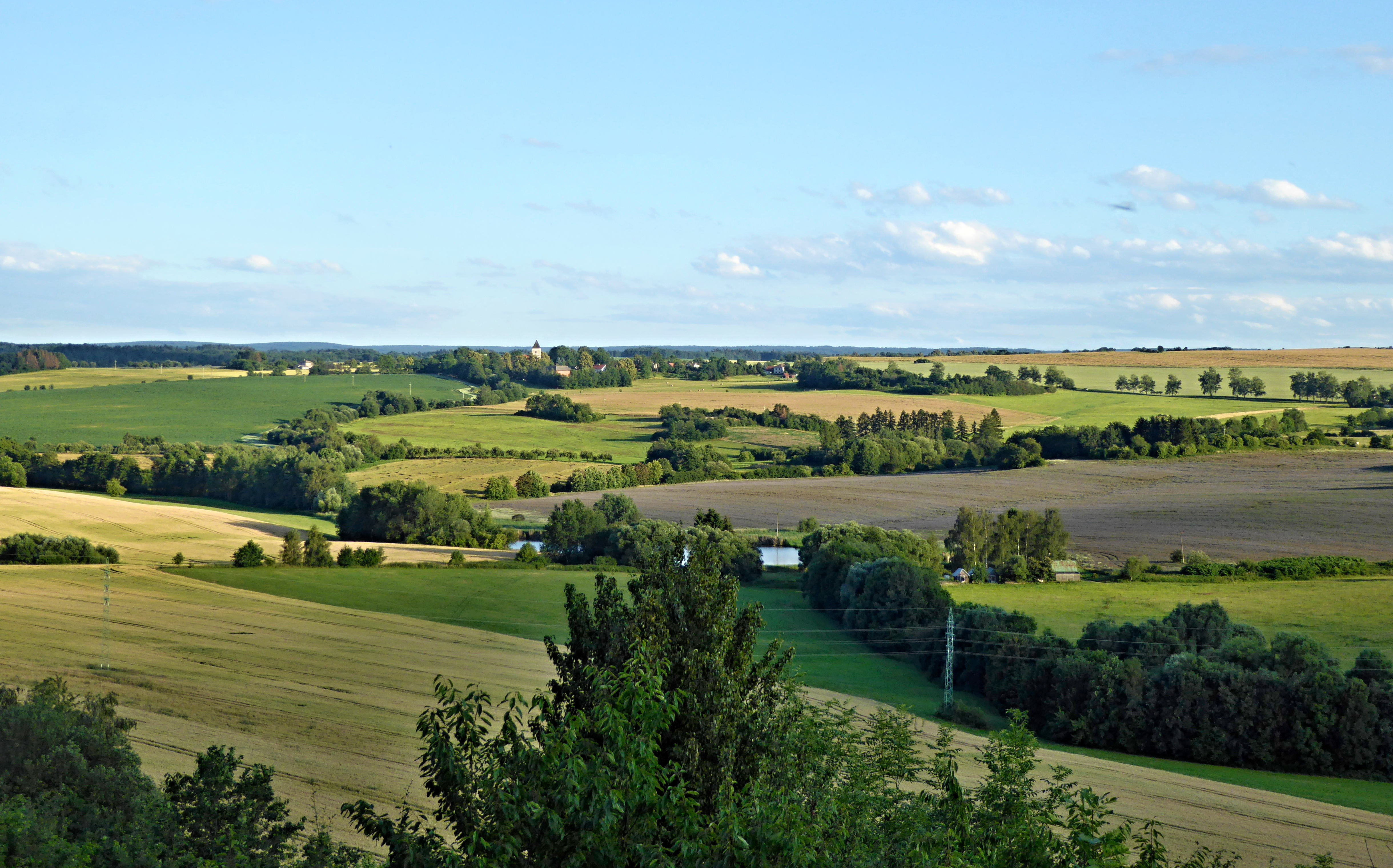 Landscape of the "Skutečské" hills (geomorphological district), image of the locality on the cadastre Skuteč, Pardubice Region, Czech Republic.